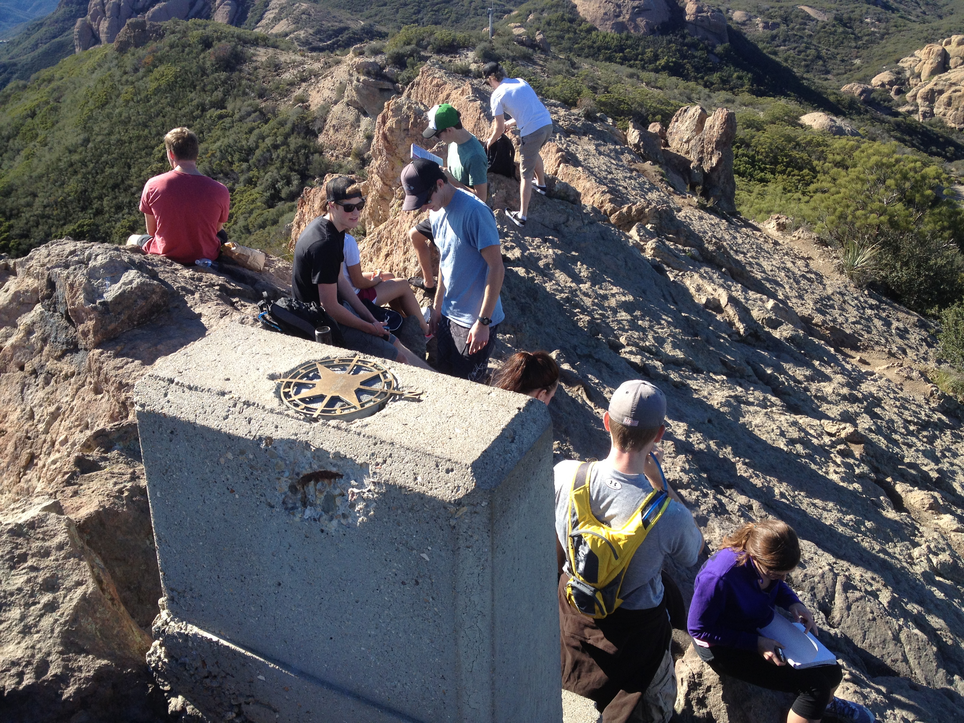 A group of hikers atop the summit of Sandstone Peak — within Circle X Ranch Park, in the Santa Monica Mountains. Part of the Santa Monica Mountains National Recreation Area.